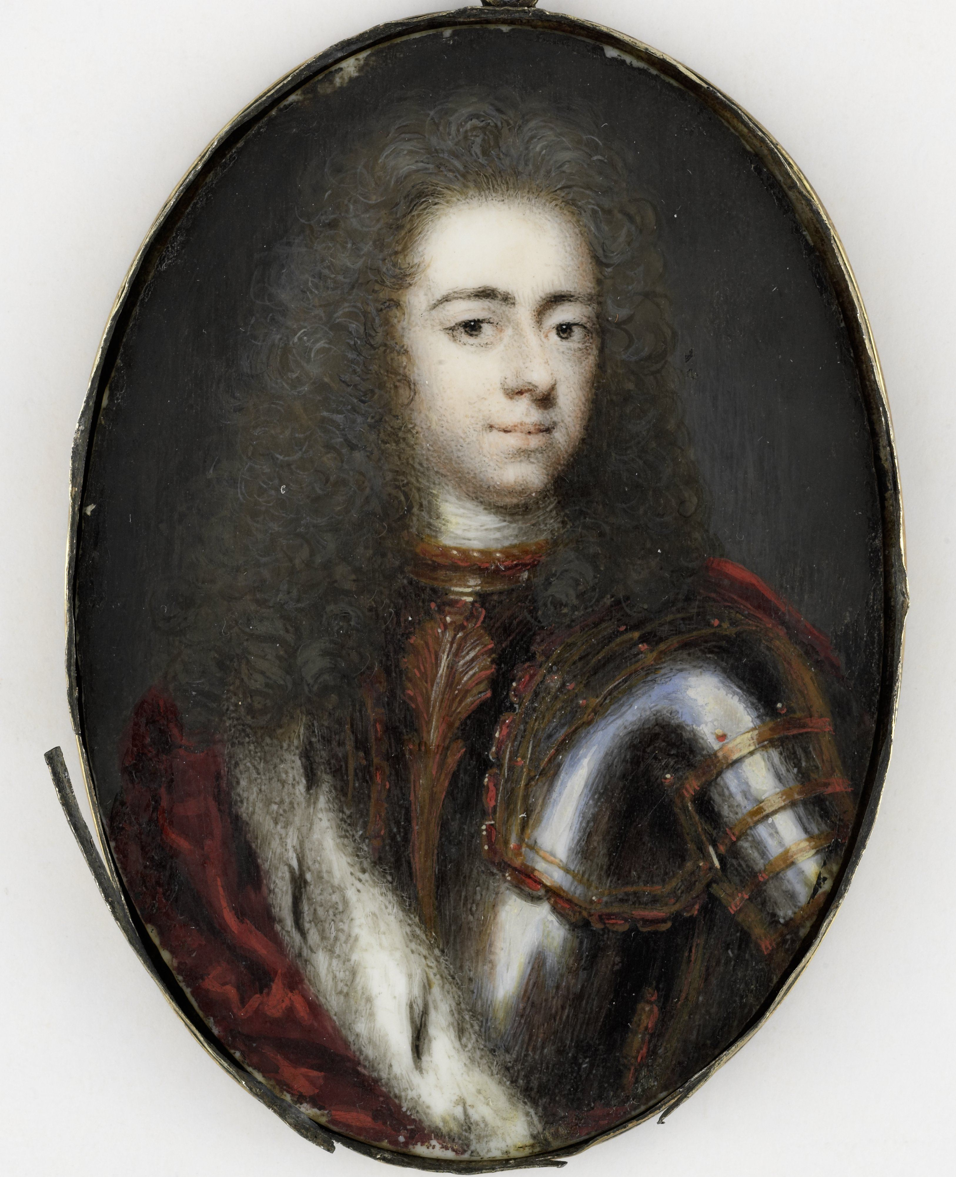 Portrait of John William Friso (1687-1711, Prince of Orange. At half-length, slightly to the right, lookong at viewer. In armor. After an original by Lancelot Volders. Part of the collection of portrait miniatures of the Rijksmuseum Amsterdam.